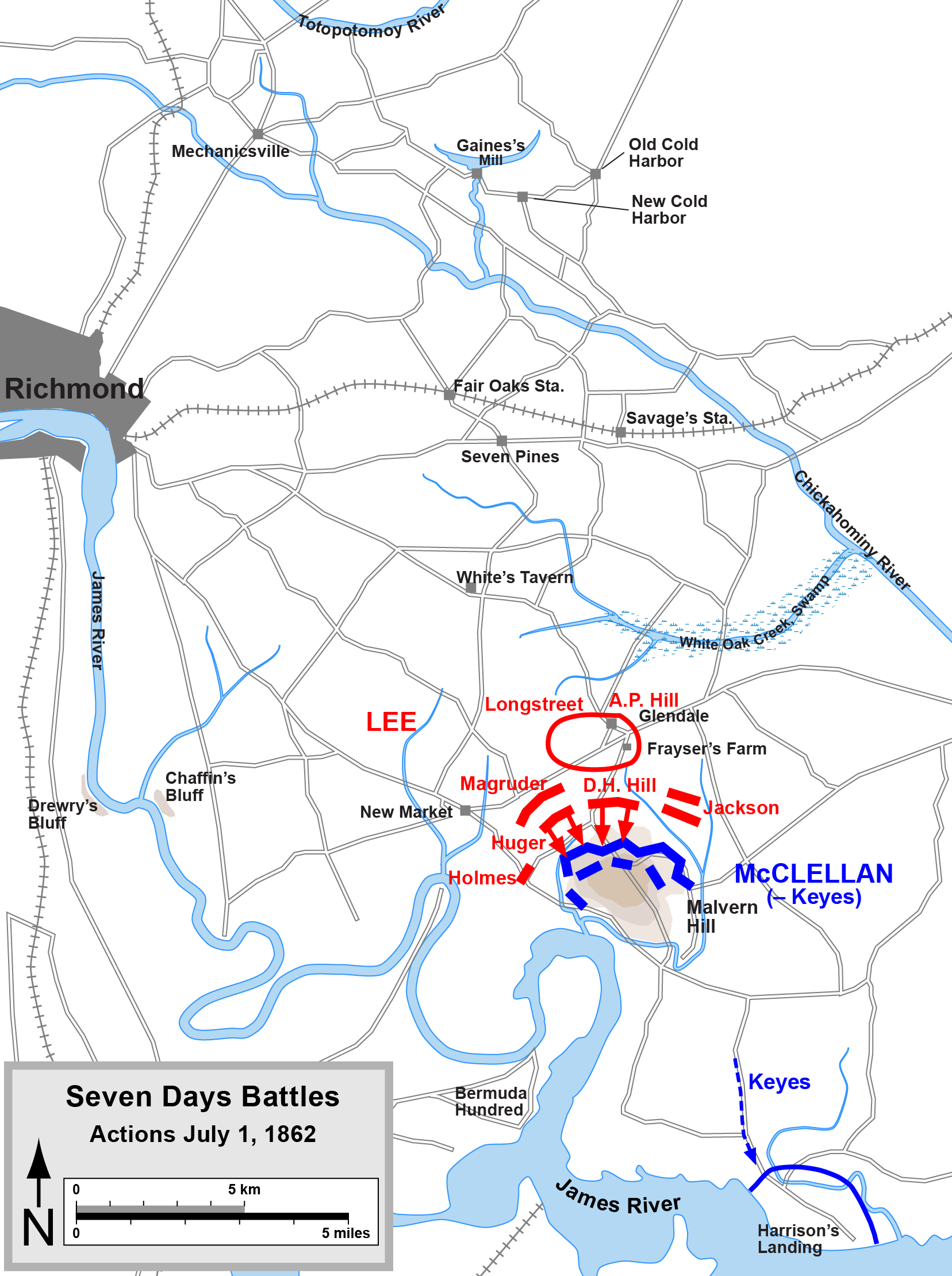 Map of the Seven Days Battles of the American Civil War, showing the battle of Malvern Hill. Drawn in Adobe Illustrator CS5 by Hal Jespersen. Graphic source file is available at